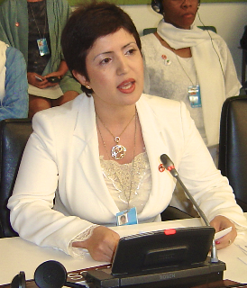 Dr. Widad Akreyi in 2010 in United Nations Headquarters in New York. Photo taken by Defend International.